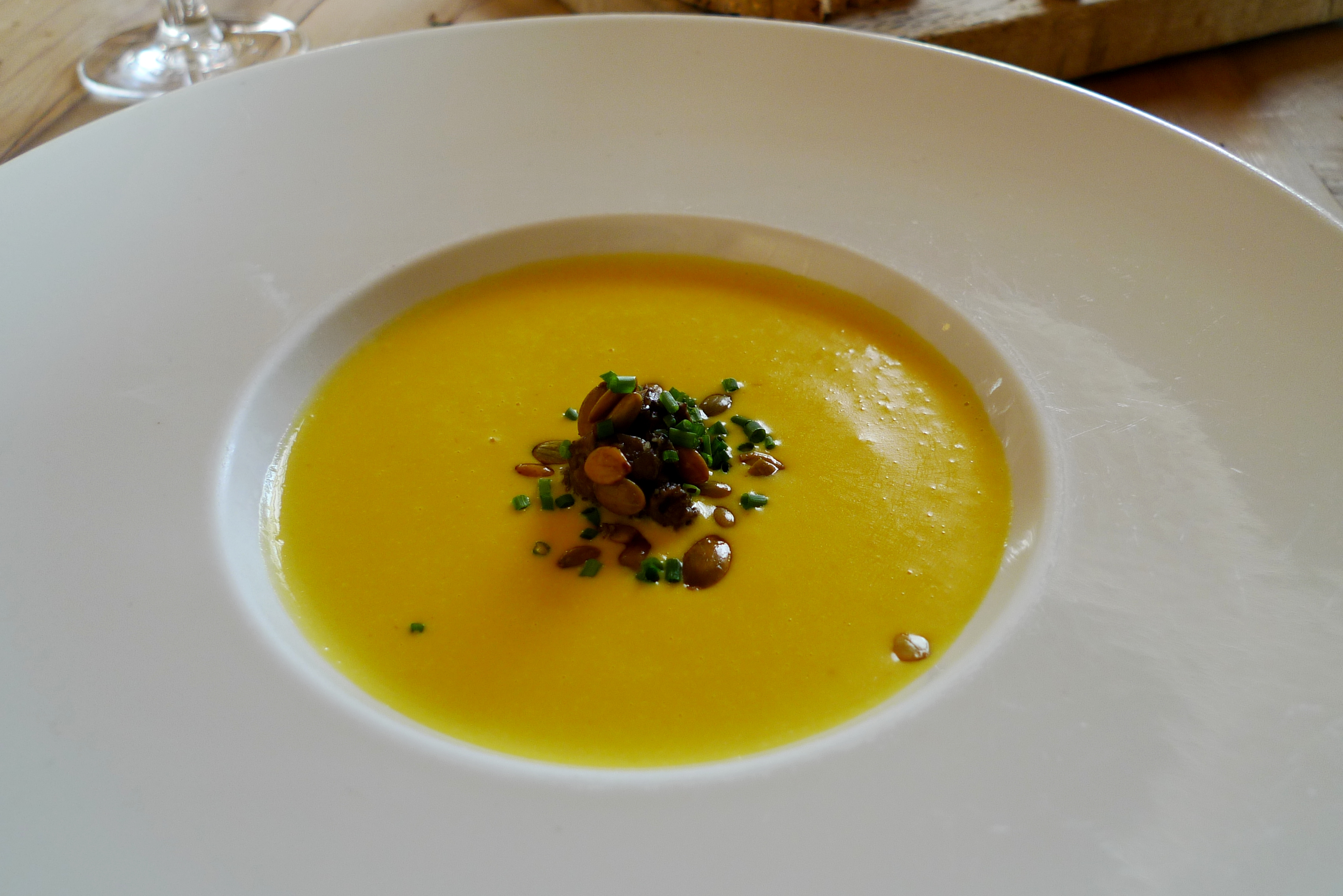 The pumpkin soup, very creamy. At The Sportsman, Faversham Road.